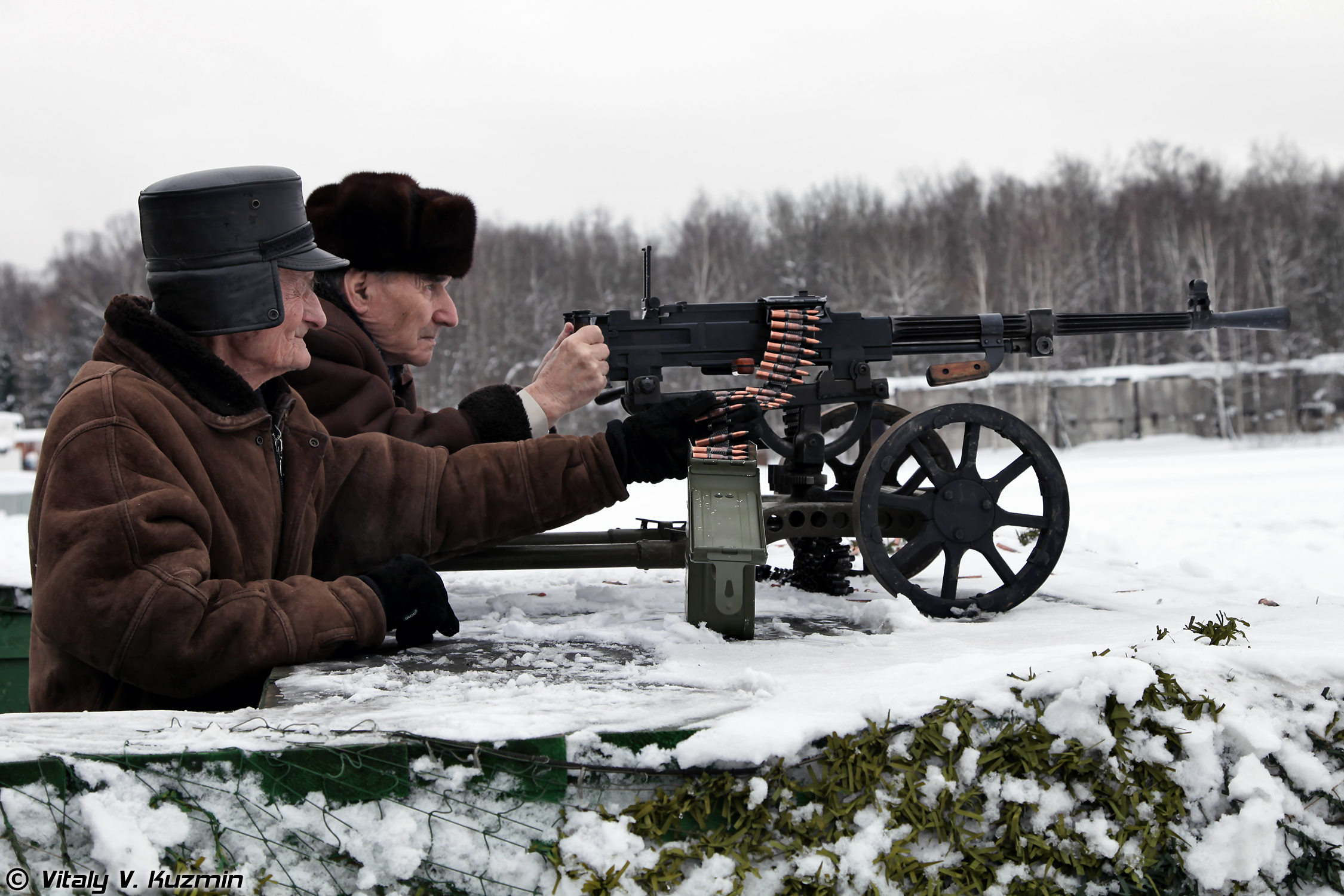 SGM Goryunov machine gun